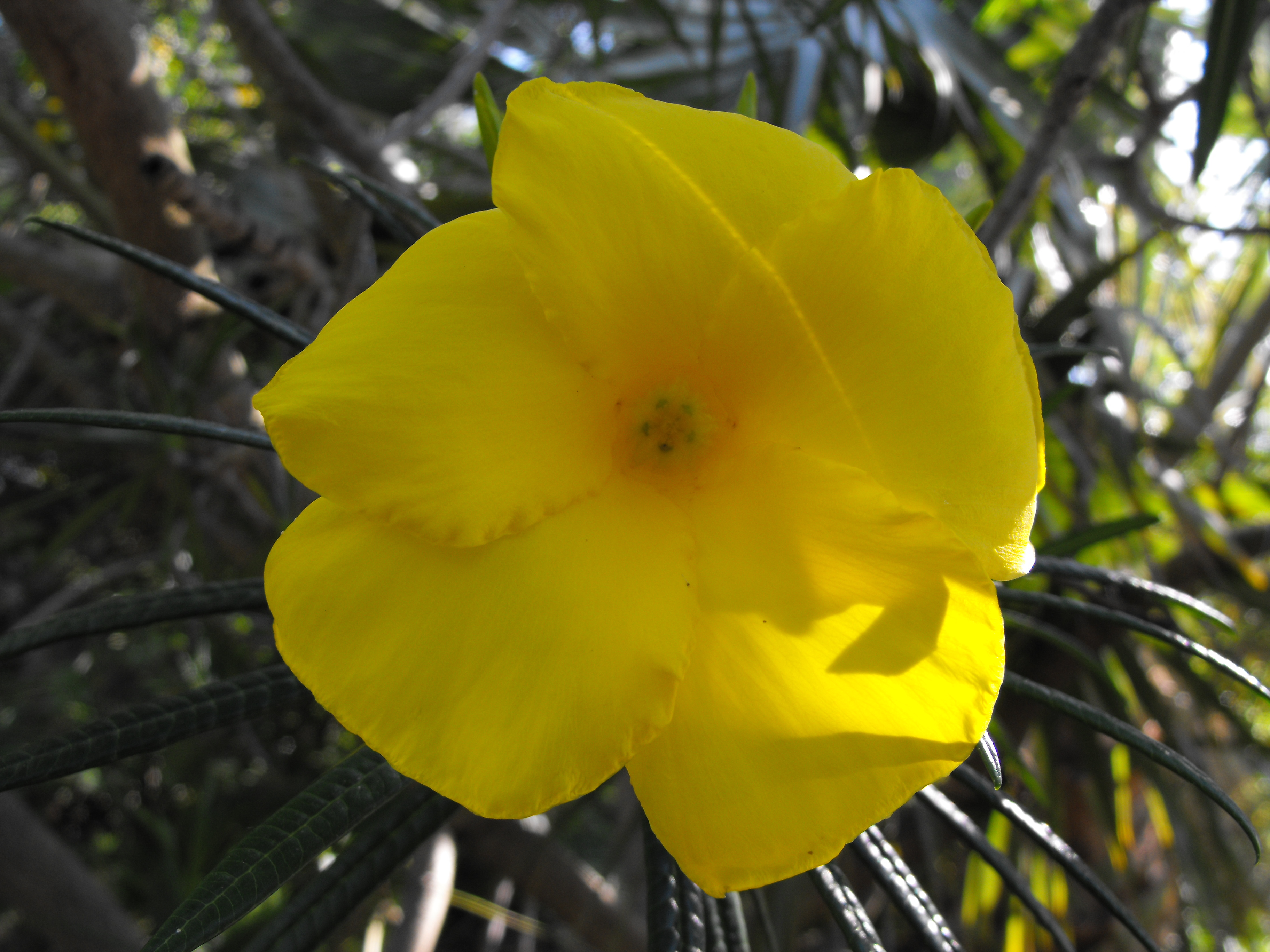 Thevetia thevetioides at Quail Botanical Gardens in Encinitas, California, USA.